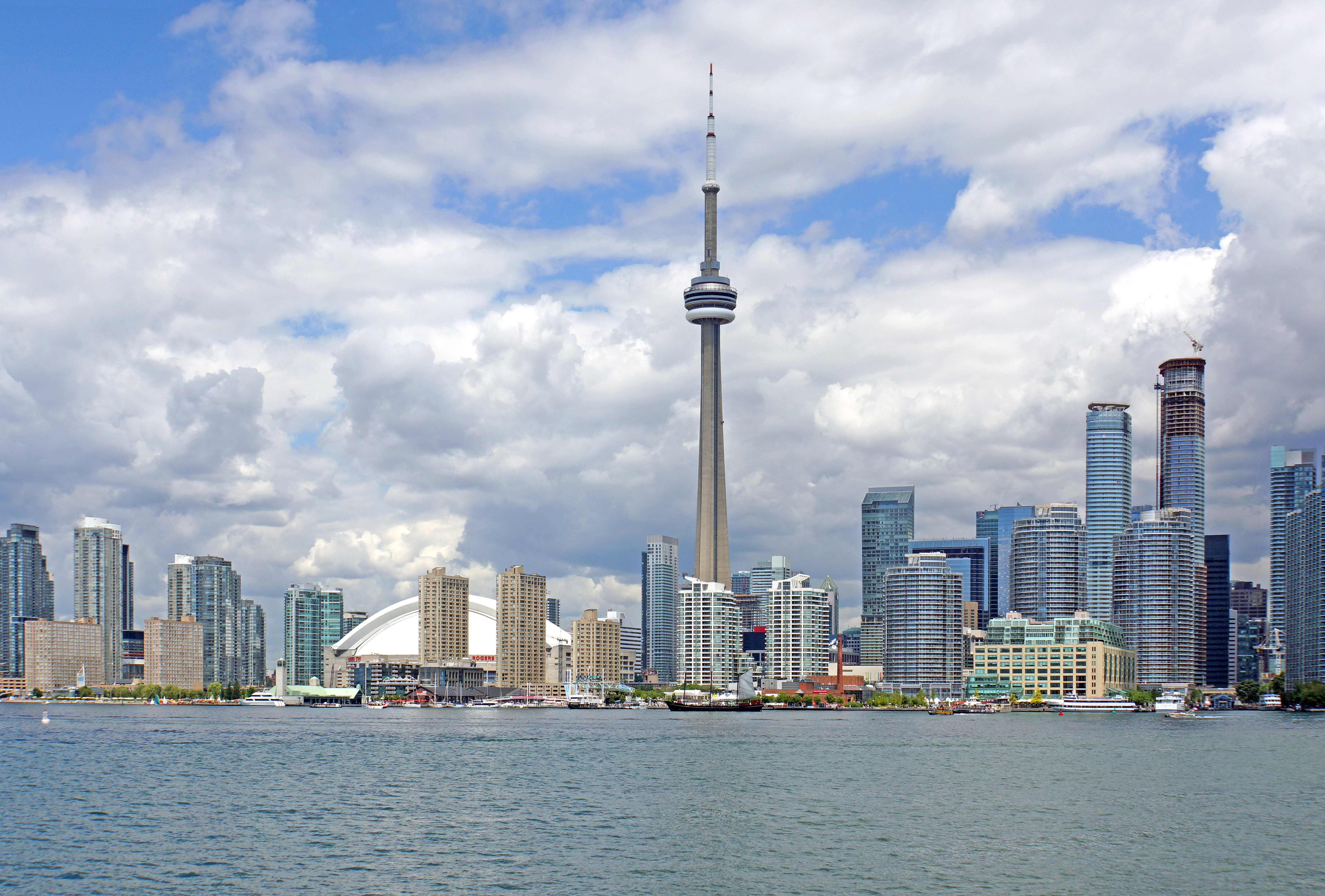 PLEASE, NO invitations or self promotions, THEY WILL BE DELETED. My photos are FREE to use, just give me credit and it would be nice if you let me know, thanks. The city of Toronto as seen from the Toronto Islands Ferry. Toronto has been ranked the best city to live in the world by the Economist. The ranking aggregates Toronto's performance across a range of indexes, which include safety, livability and cost of living. The longest street in the world — Yonge Street — runs through Toronto.